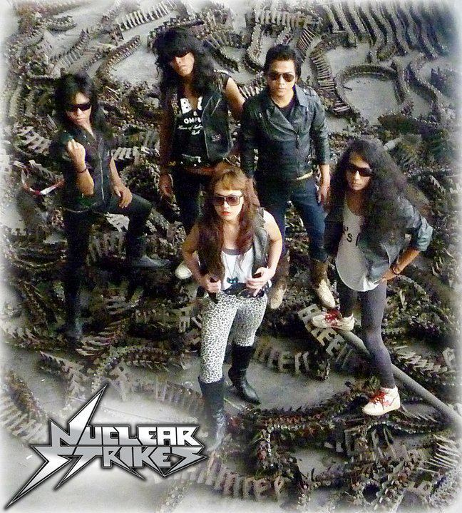 Nuclear Strikes